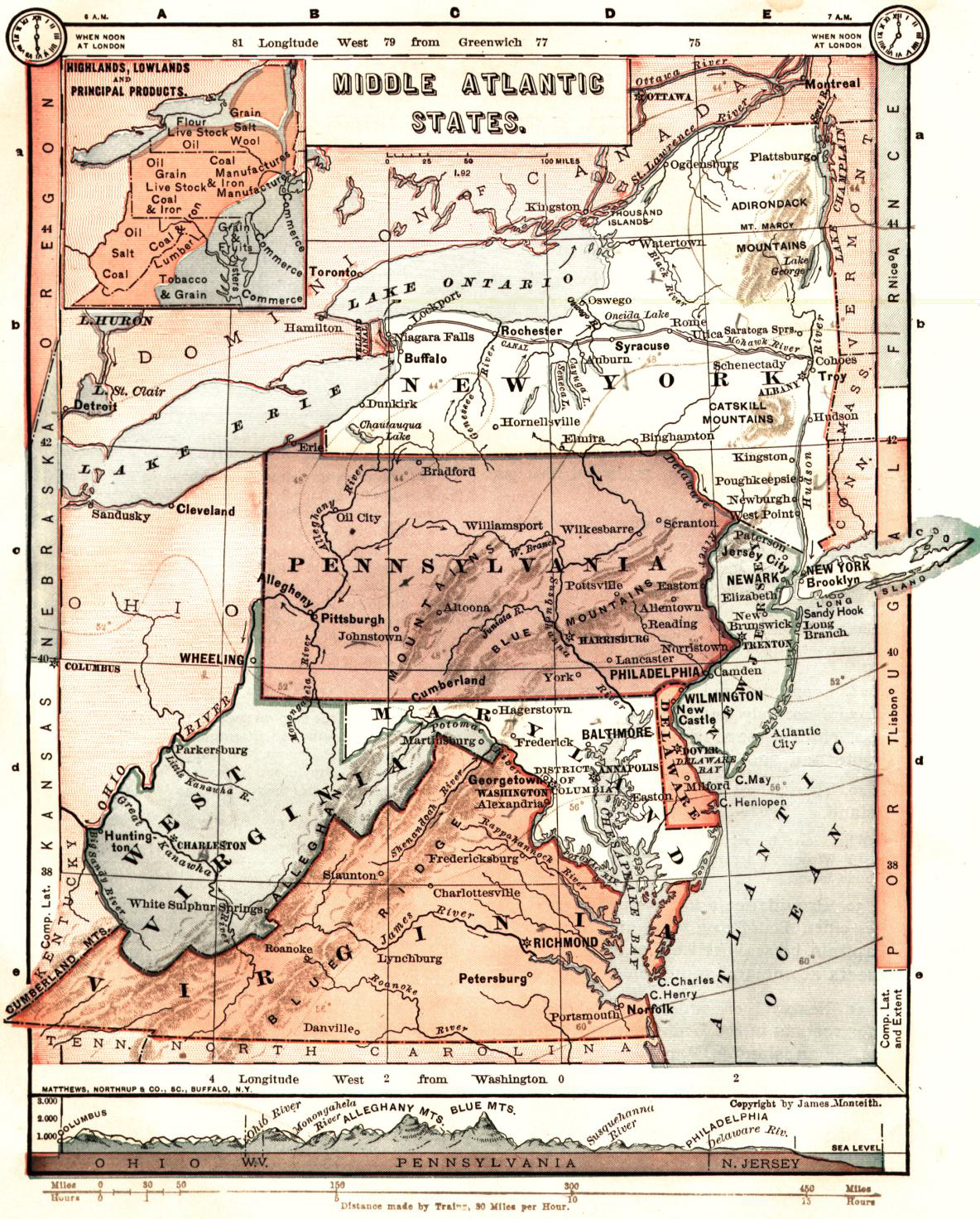 Map shows Middle Atlantic states of New York, New Jersey, Pennsylvania, Maryland, Delaware, Virginia and West Virginia, and the District of Columbia.